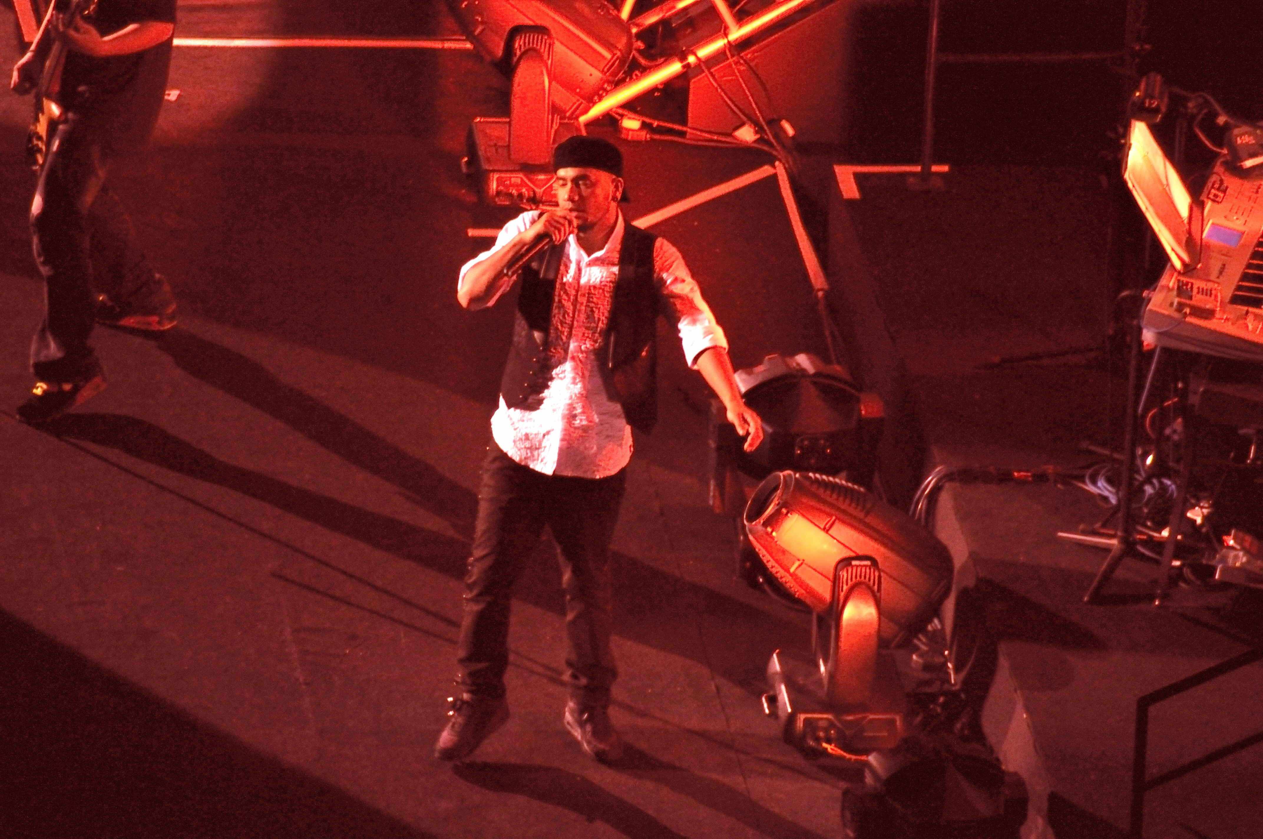 Chang Chen-yue (張震嶽) Bân-lâm-gú: 張震嶽。Tiunn Tsín-ga̍k